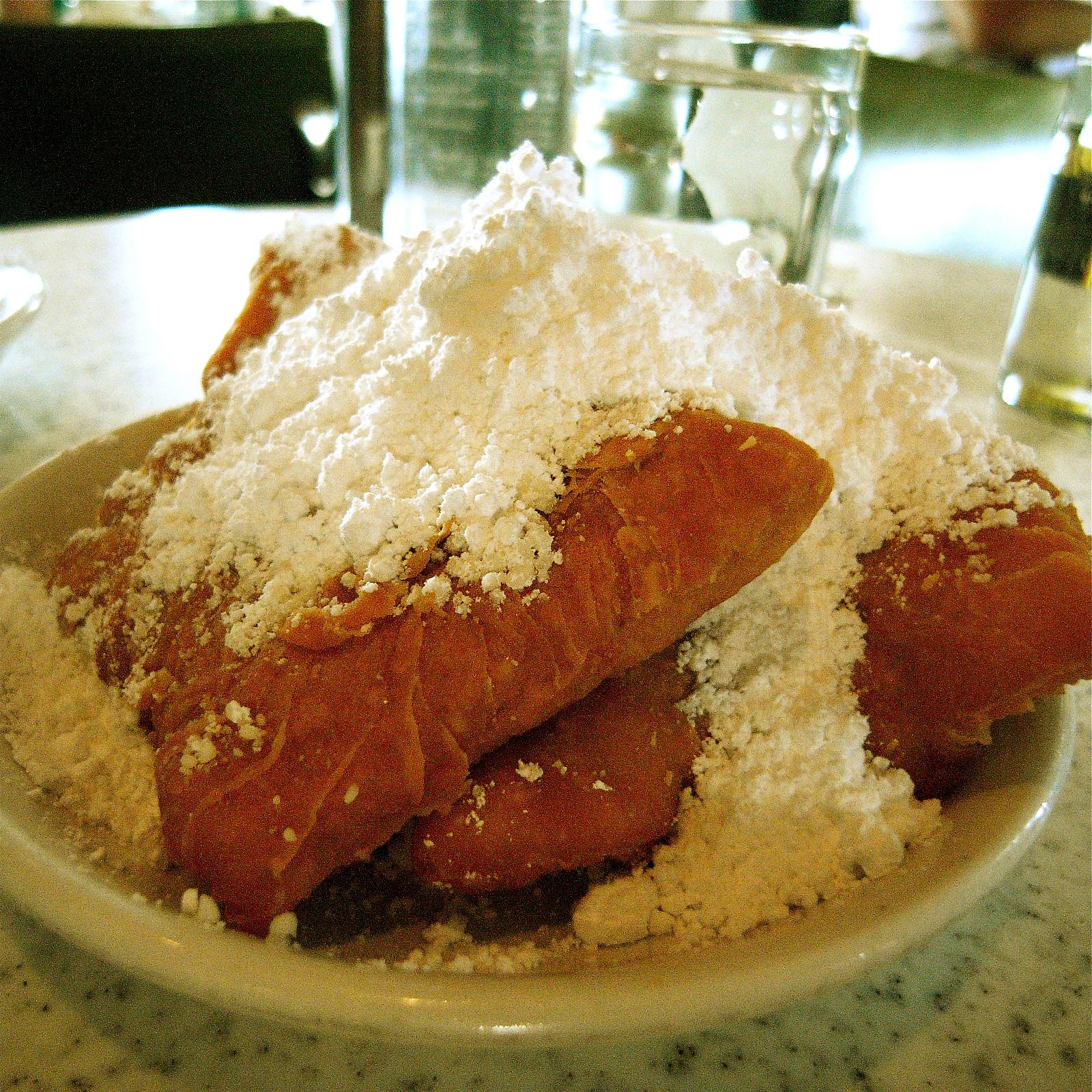 "Life" Order of beignets with powdered sugar, Café du Monde.